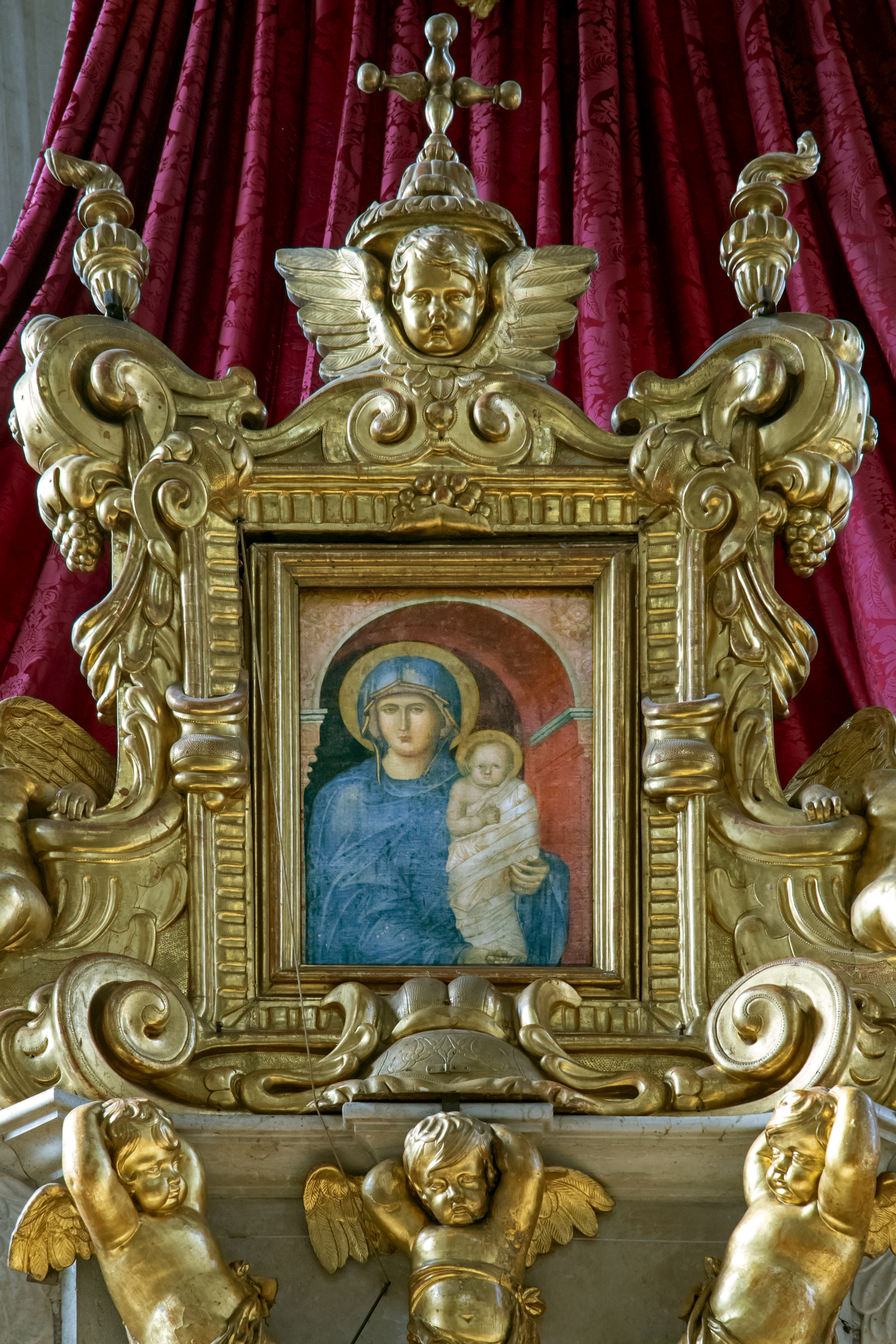 In the thirteenth century a canon bequeathed to the cathedral an ancient Byzantine icon depicting the Virgin with the Infant Jesus, considered the work of St. Luke. This icon was immediately used in the solemn liturgies of the cathedral (already linked to the Marian cult, by title), and immediately became dear to the citizens, so much so that the canons took up the use of gathering around the image, singing an antiphon on Saturday Marian. The painting was also transported outside in solemn processions, so much so that it was necessary, in the fourteenth century, to preserve it from wear with copies. Two of these replacement paintings are still preserved today, works by Guariento di Arpo (now in the Metropolitan Museum of Art in New York) and by Giusto de 'Menabuoi (now in the Diocesan Museum, in the Episcopal Palace). From the seventeenth century the historic icon was displayed on the special altar in the new right transept, but due to an accident, it was ruined in 1647. It was immediately replaced with an identical copy, so much so that it was discovered that it was not the original only in 1974.